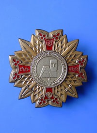 NKR Martakan khach 2th order